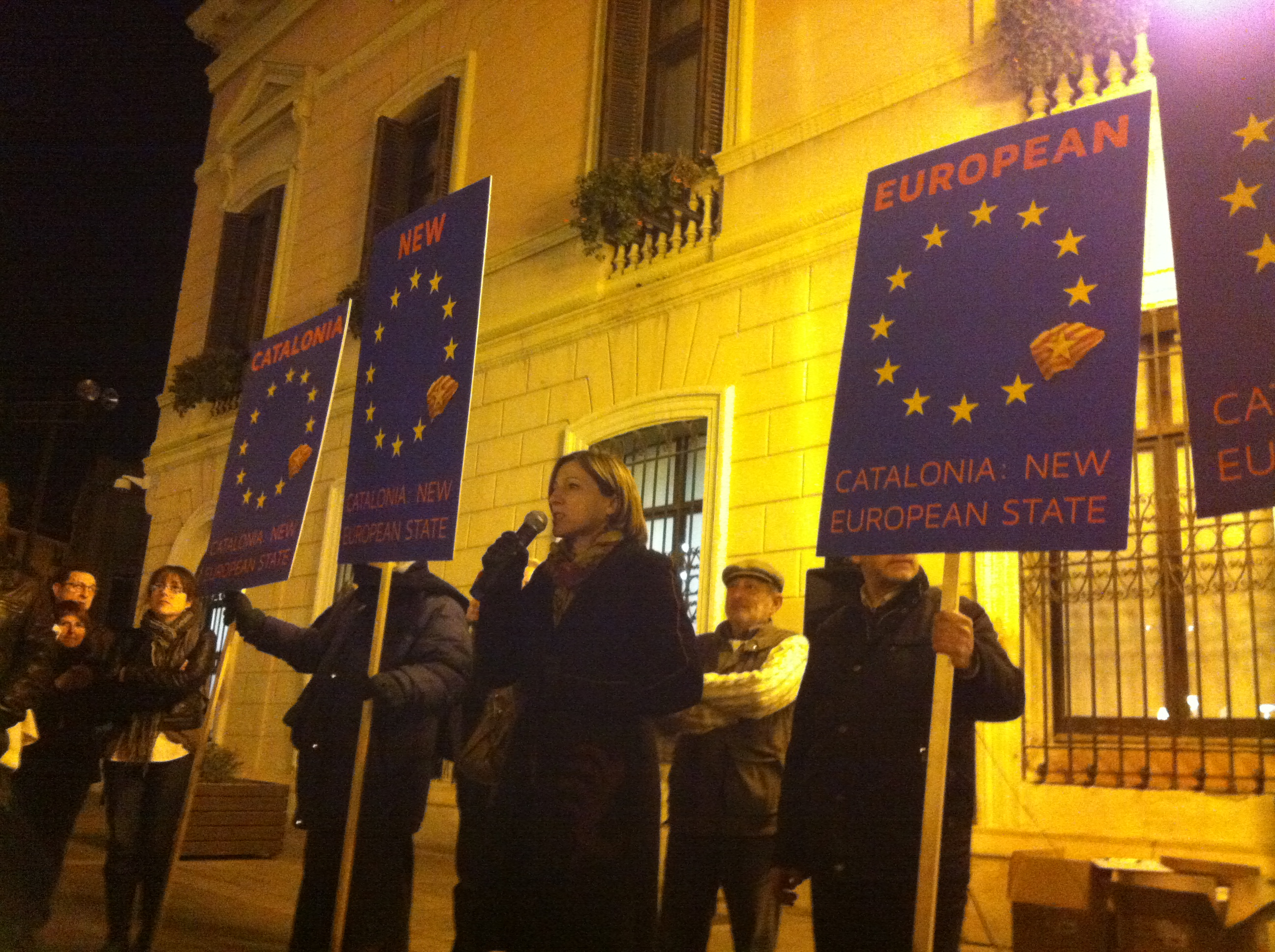 Celebration in Sabadell of the declaration of sovereigntiy at the Parliament of Catalonia in January 2013